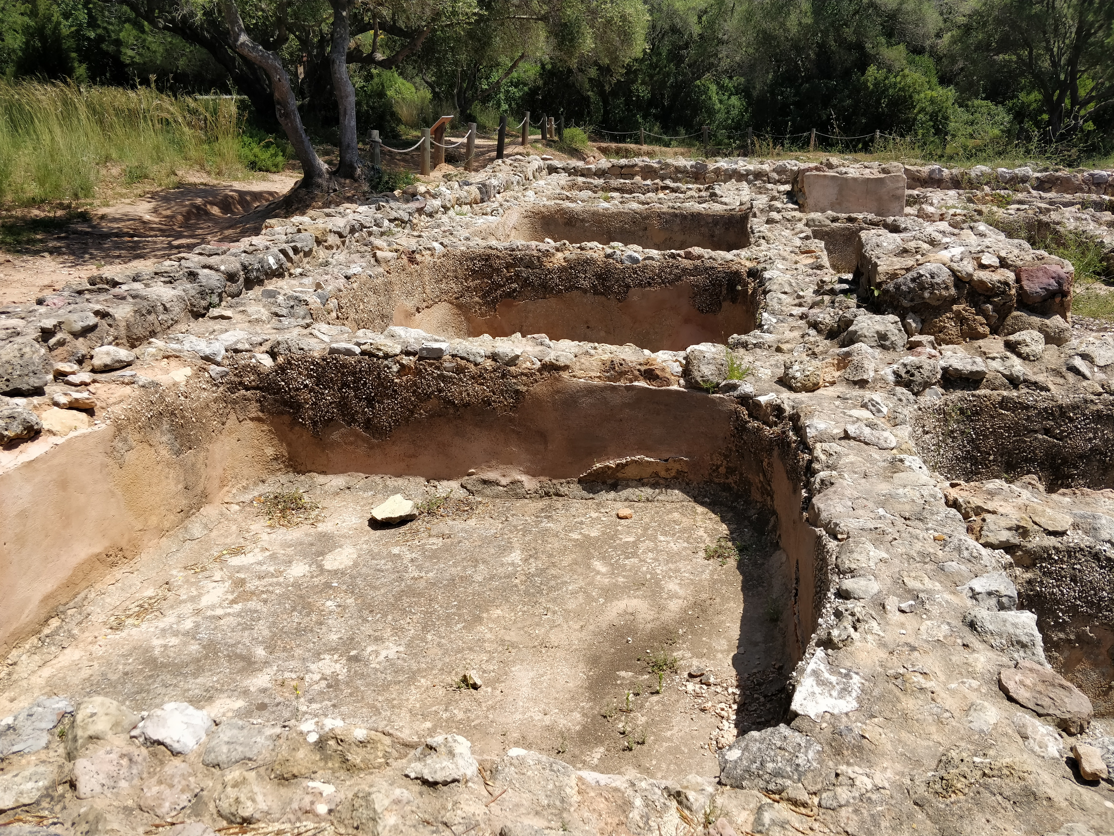 Former fish processing tanks at the Roman ruins of Creiro, Setubal District, Portugal